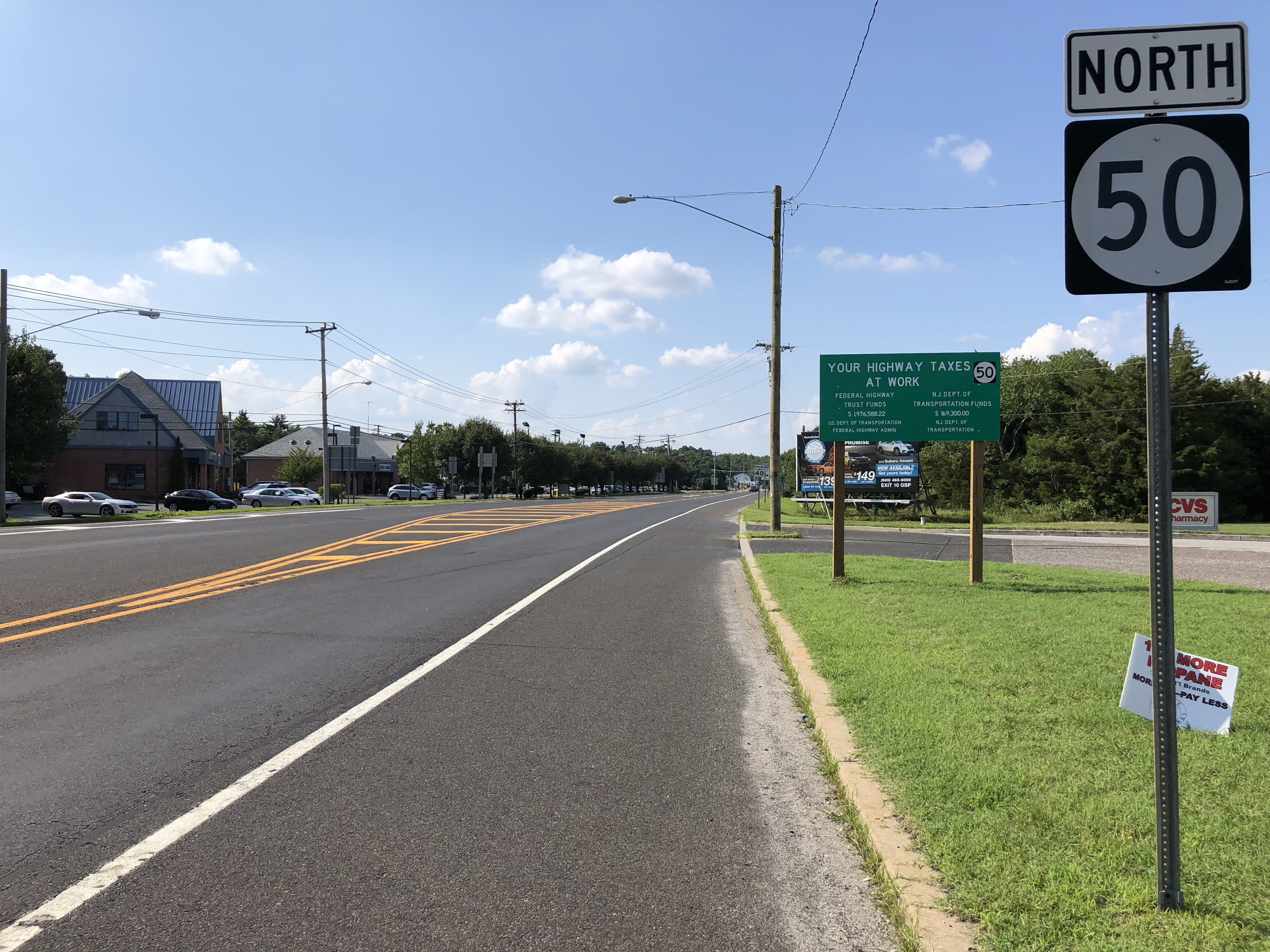 View north along New Jersey State Route 50 just north of U.S. Route 9 (Shore Road) in Upper Township, Cape May County, New Jersey